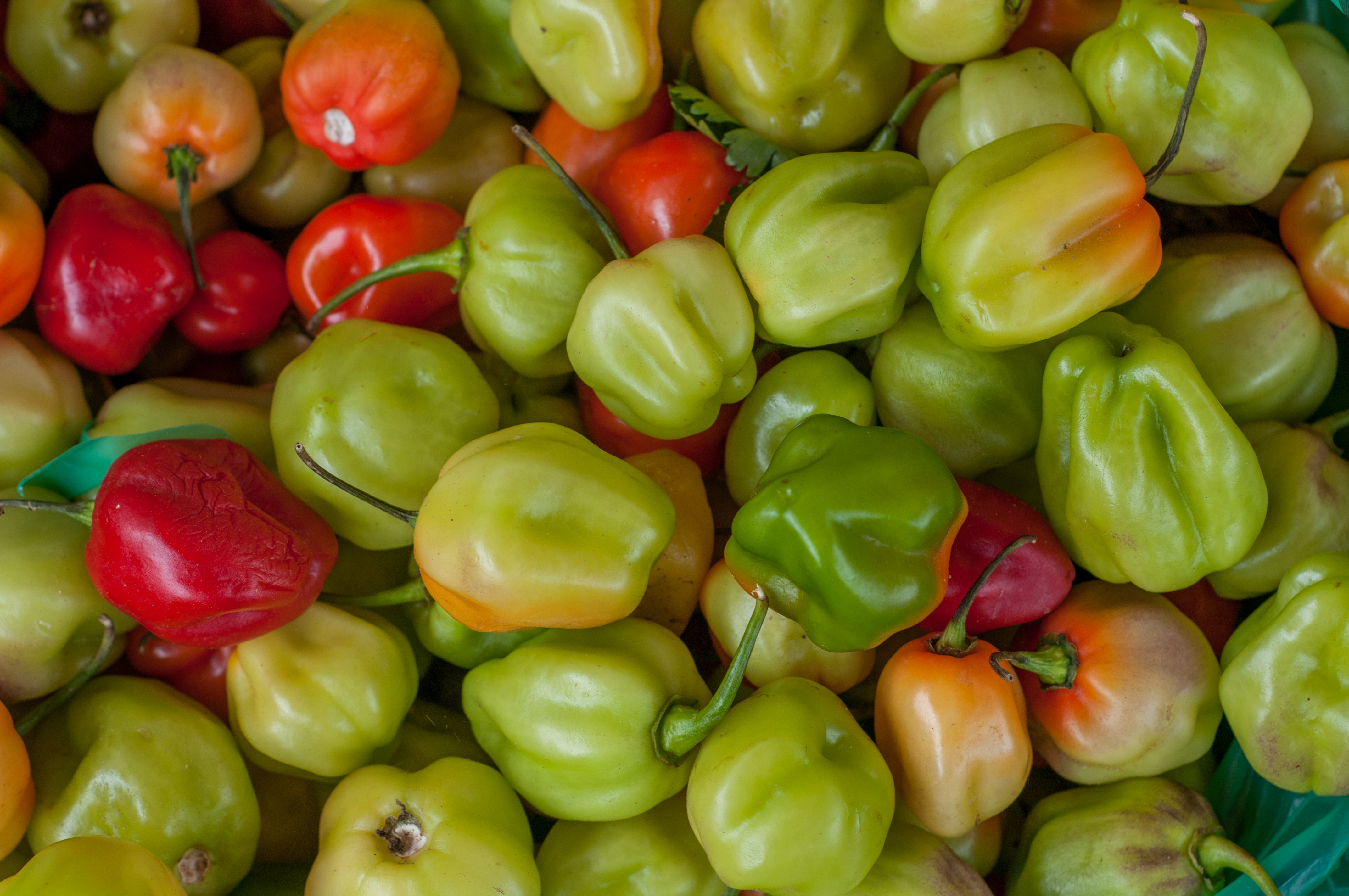 Capsicum